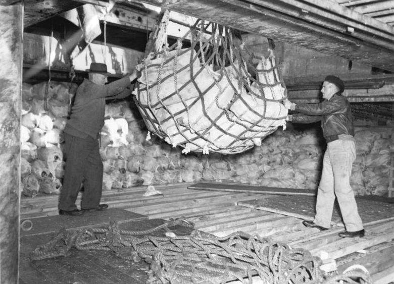 Description: Loading "Clan McDougall" with frozen meat for England Photographer: Unknown Date: Unknown Our reference: AAQT 6539 A1074 This photo is from Archives New Zealand It’s from a collection of about 100,000 tourism and publicity photos taken during the twentieth century. The description comes from the publicity caption given to it at the time it was taken. To see more of the collection, visit Archway, and click on the “record” tab. You are welcome to re-use this photo on websites or in publications. Please - - Don’t change the photo (e.g. by cropping or re-colouring it) - Display our name and the title and reference information with the photo If you would like to use this photograph in any other way, please contact us